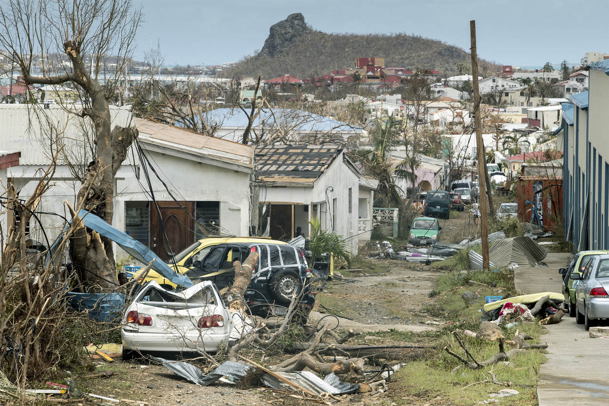 Hurricane Irma on Sint Maarten (NL) - starting to clean up operation afterwards